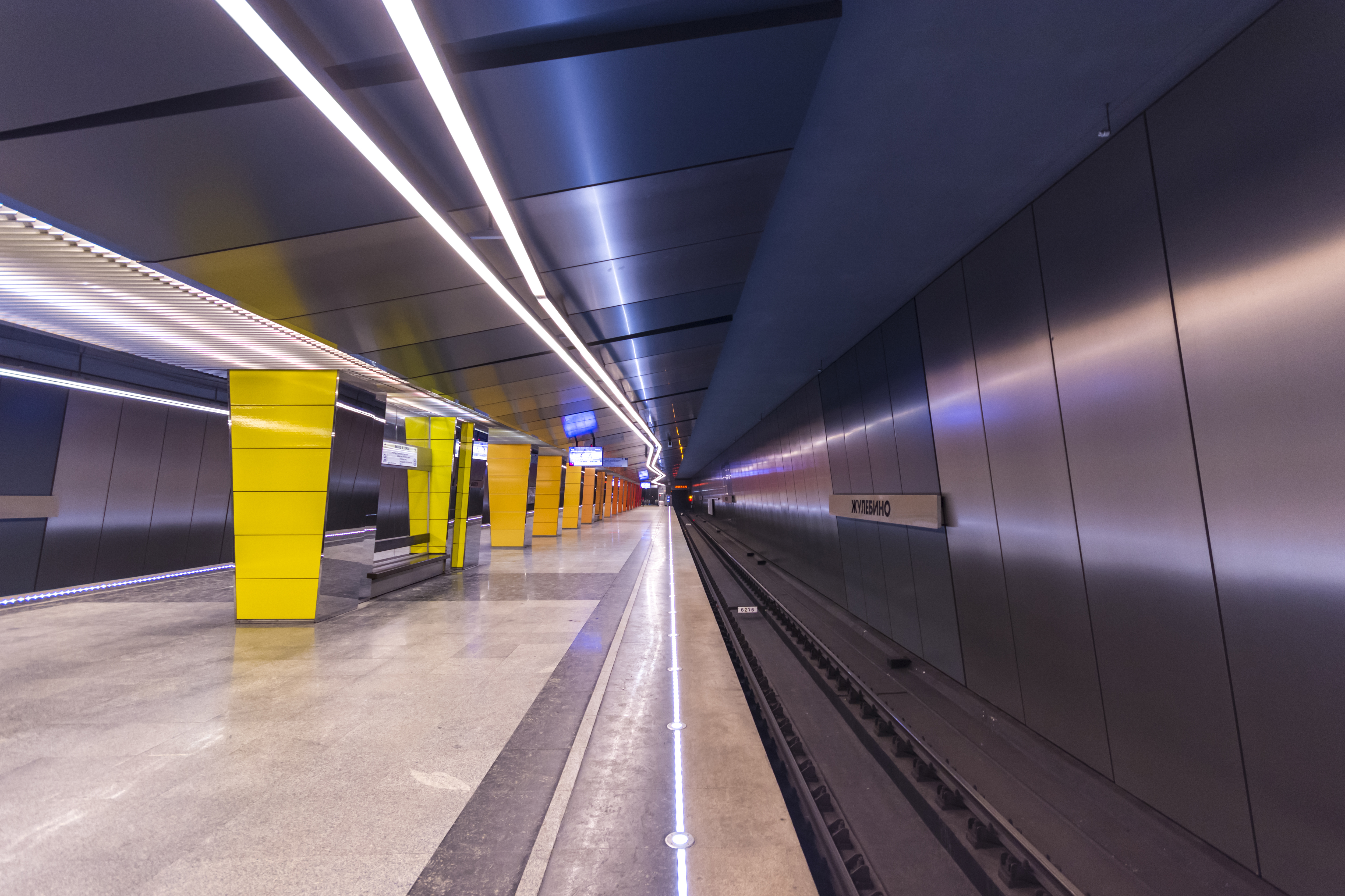 Zhulebino Station of Moscow Subway